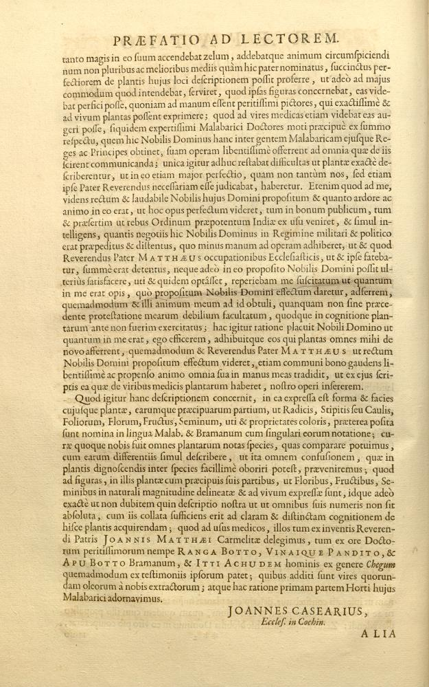 A scanned page of a 325 year old botany text on Malabar flora.